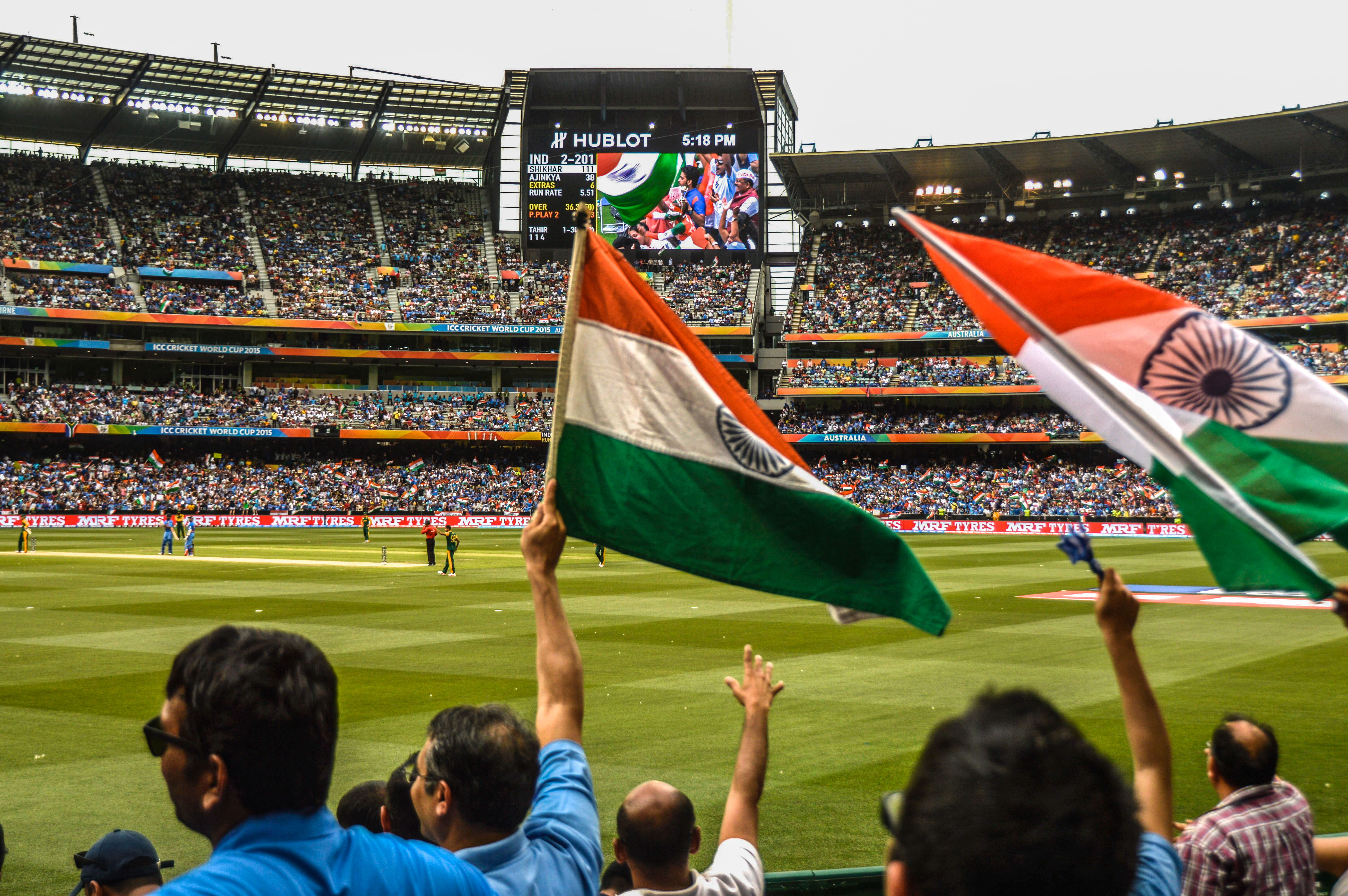 Indian Cricket supporters at the Melbourne Cricket Ground (MCG) during the 2015 Cricket World Cup.